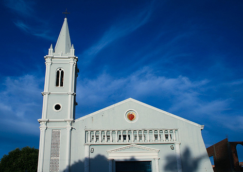 Church on the central plaza of Janaúba